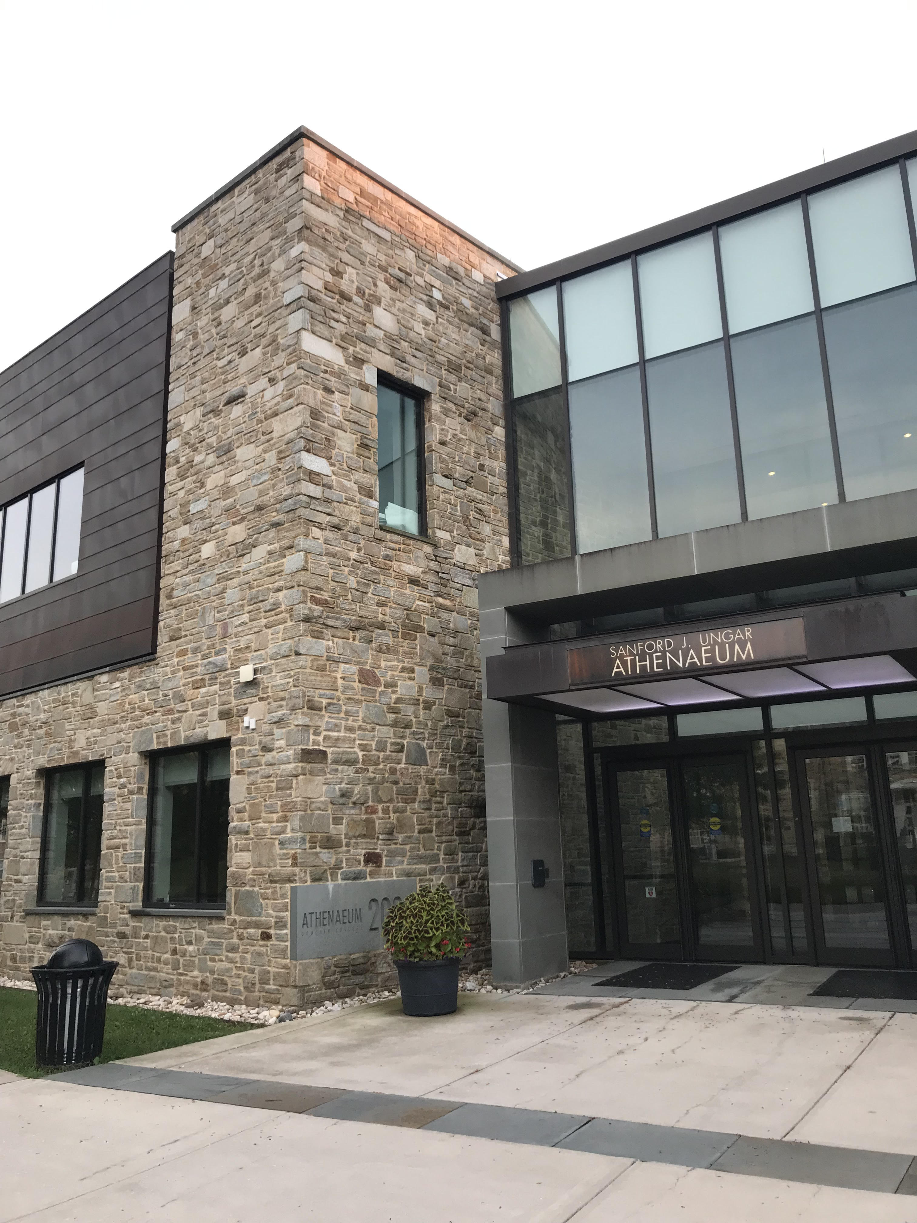 The main entrance to Sanford J. Ungar Athenaeum